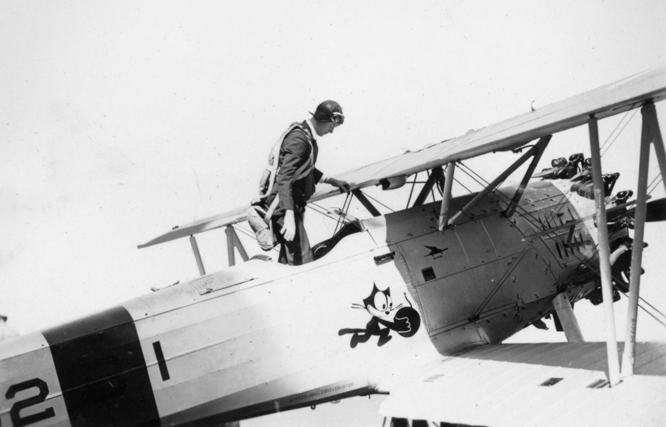 Charles Lindbergh in a Boeing F3B-1 (BuNo A-7739) from Bombing Squadron VB-2B aboard the aircraft carrier USS Saratoga (CV-3). Lindbergh visited the USS Saratoga on 8 February 1929. He was aboard for two days and while he was there he was invited to fly the new Boeing F3B-1. The VB-2B made him an honorary member of the squadron.